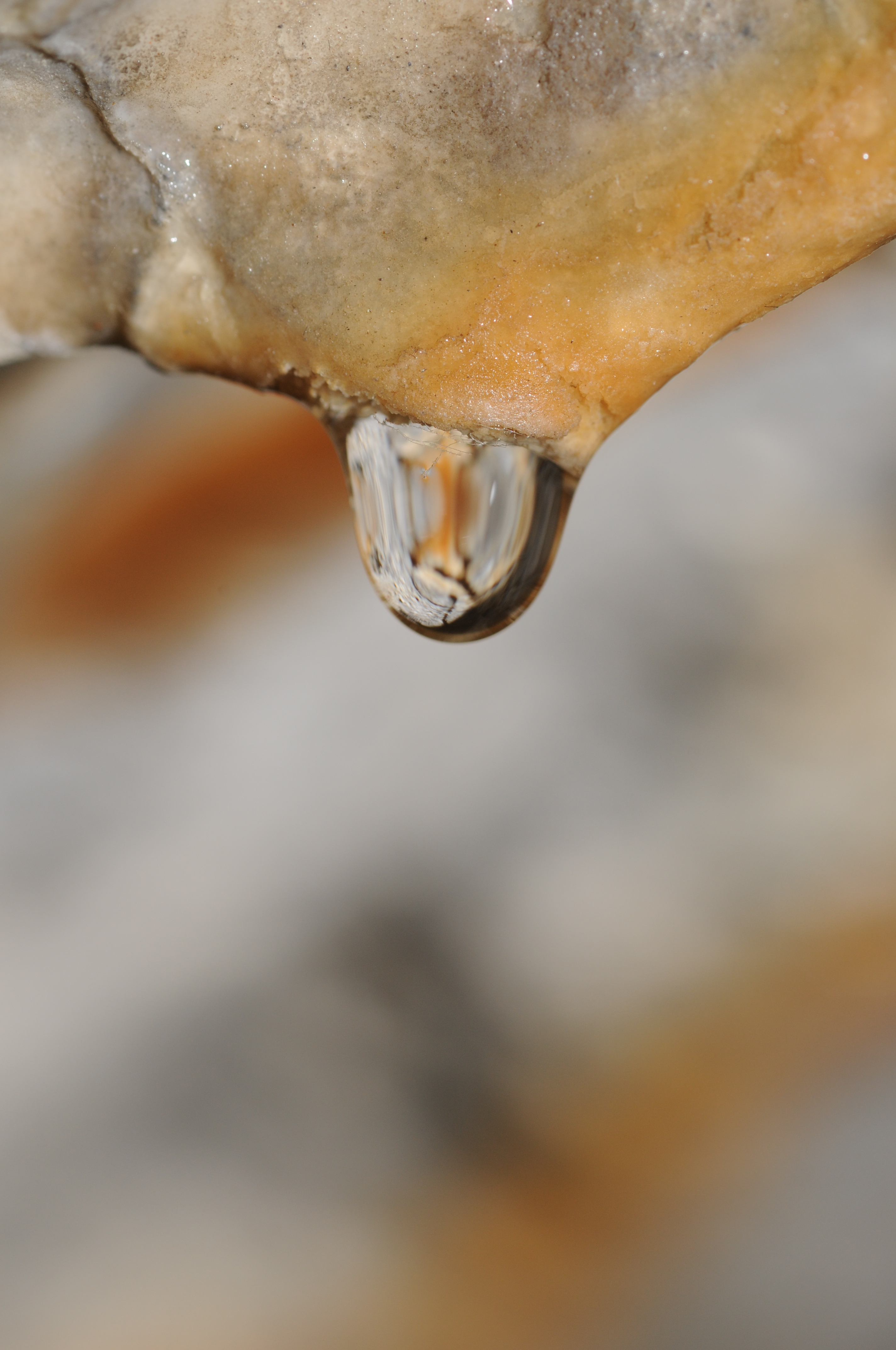 Water droplet. Salbert hill fortifications.